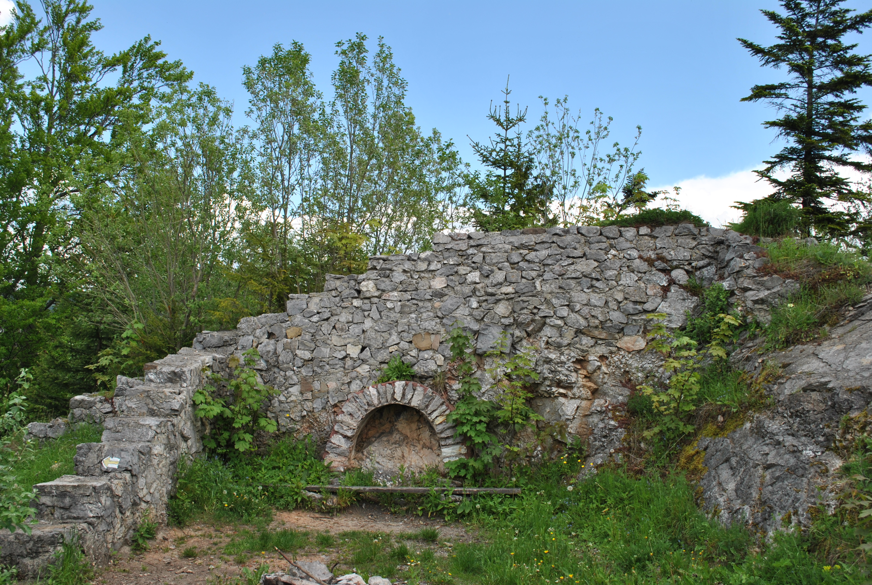 Ruins of the Liptov Old Castle